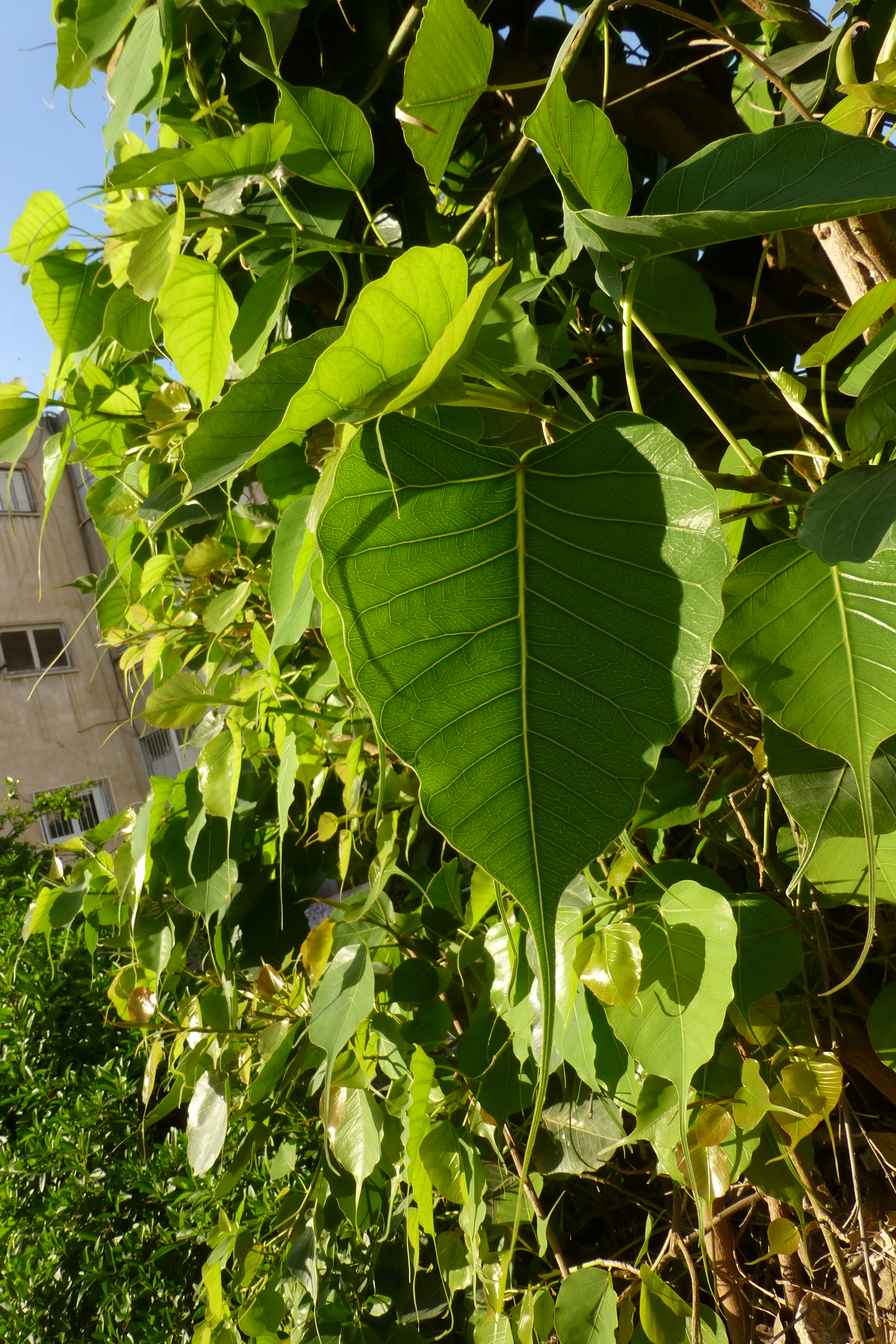 Ramat Gan Leaves